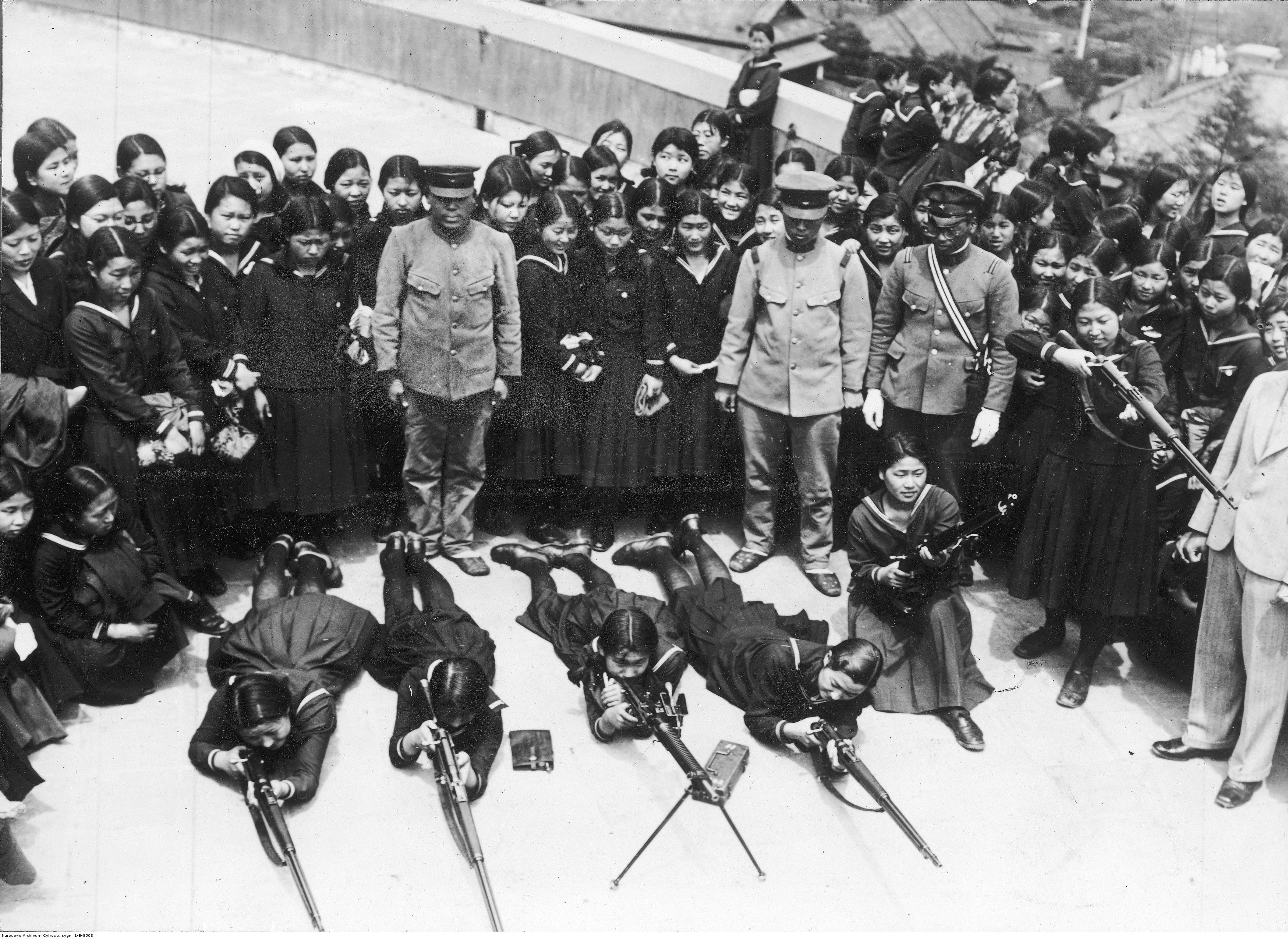 Female students learning gun handling.